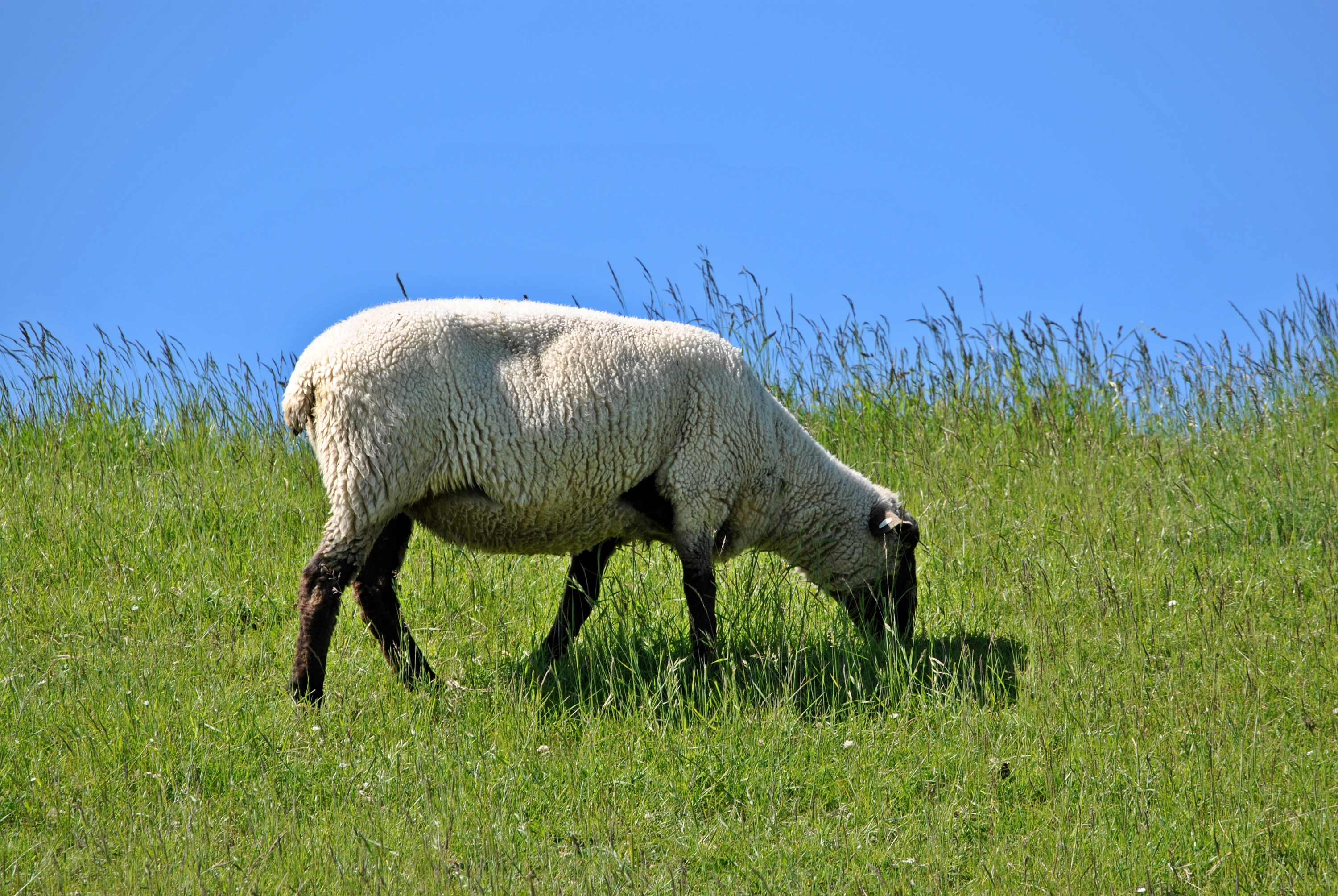 A sheep at the dike of Krummhörn (Lower Saxony, Germany)This photograph was taken with a Nikon D3000